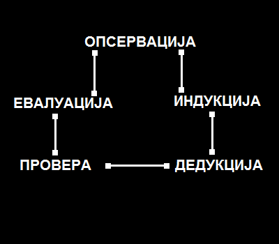 Empirical Cycle